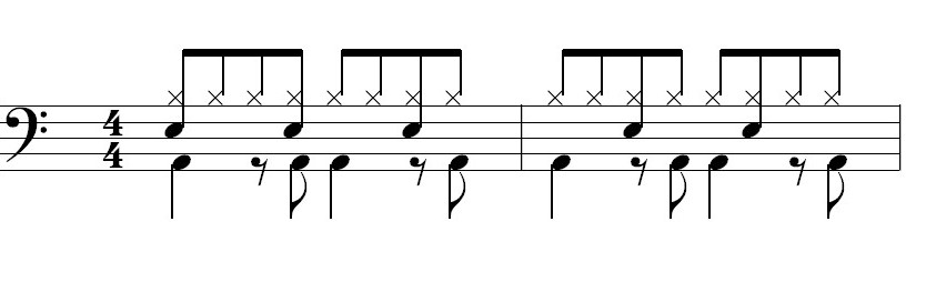 An example of drum beat of Bossa Nova.